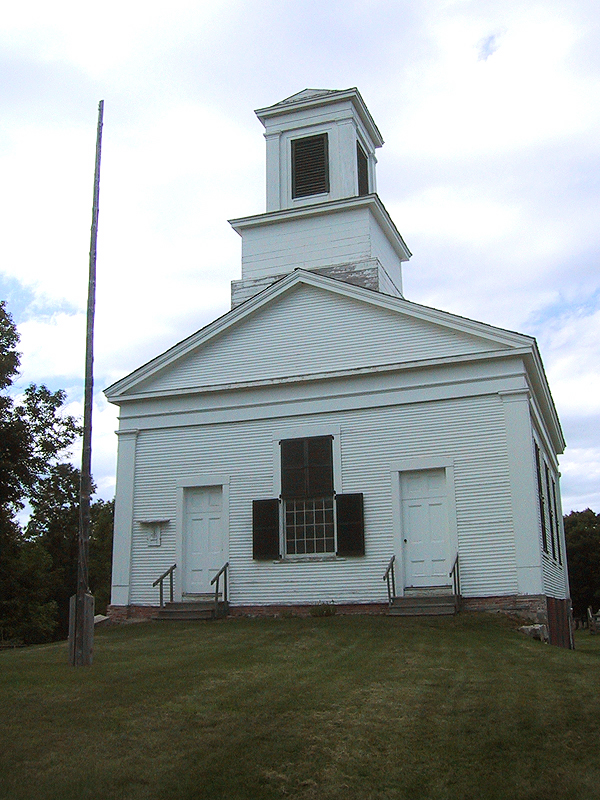 Braintree Hill Meetinghouse on Braintree Hill Road in Braintree Vermont.